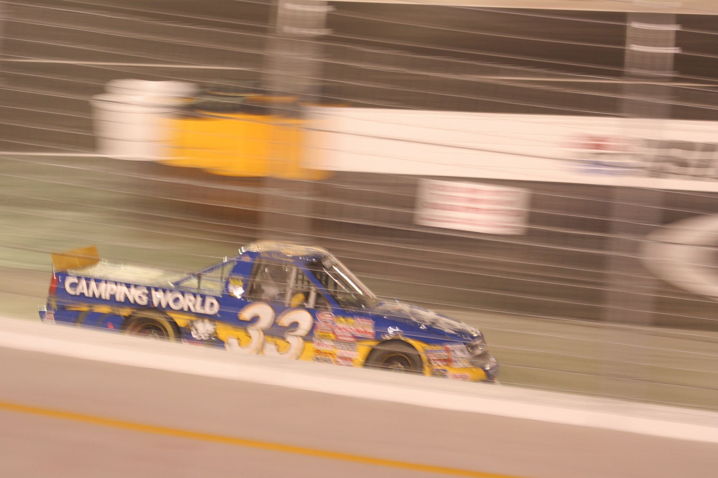 The truck of NASCAR Craftsman Truck Series driver Ron Hornaday at the August 2007 Bristol raceIMG_3598